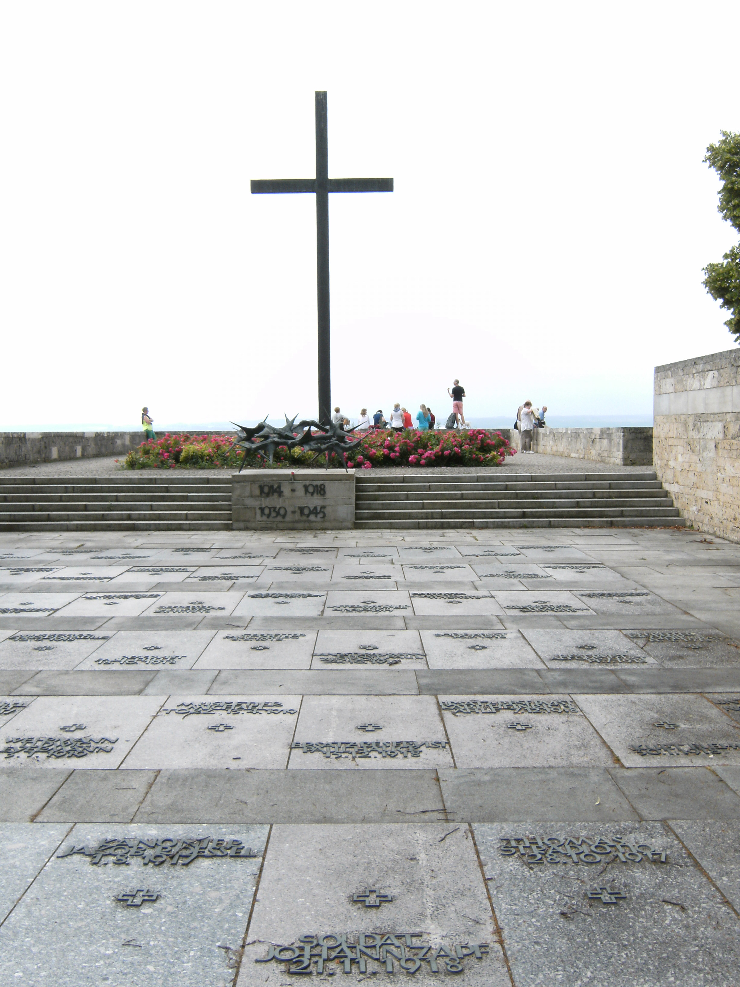 High cross and graves for dead German soldiers of World War I at Meersburg-Lerchenberg in Germany.